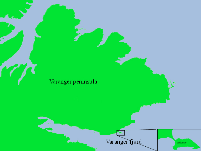 A sketch-map showing the location of Ekkerøy relative to the Varanger pininsula and the Varanger fjord